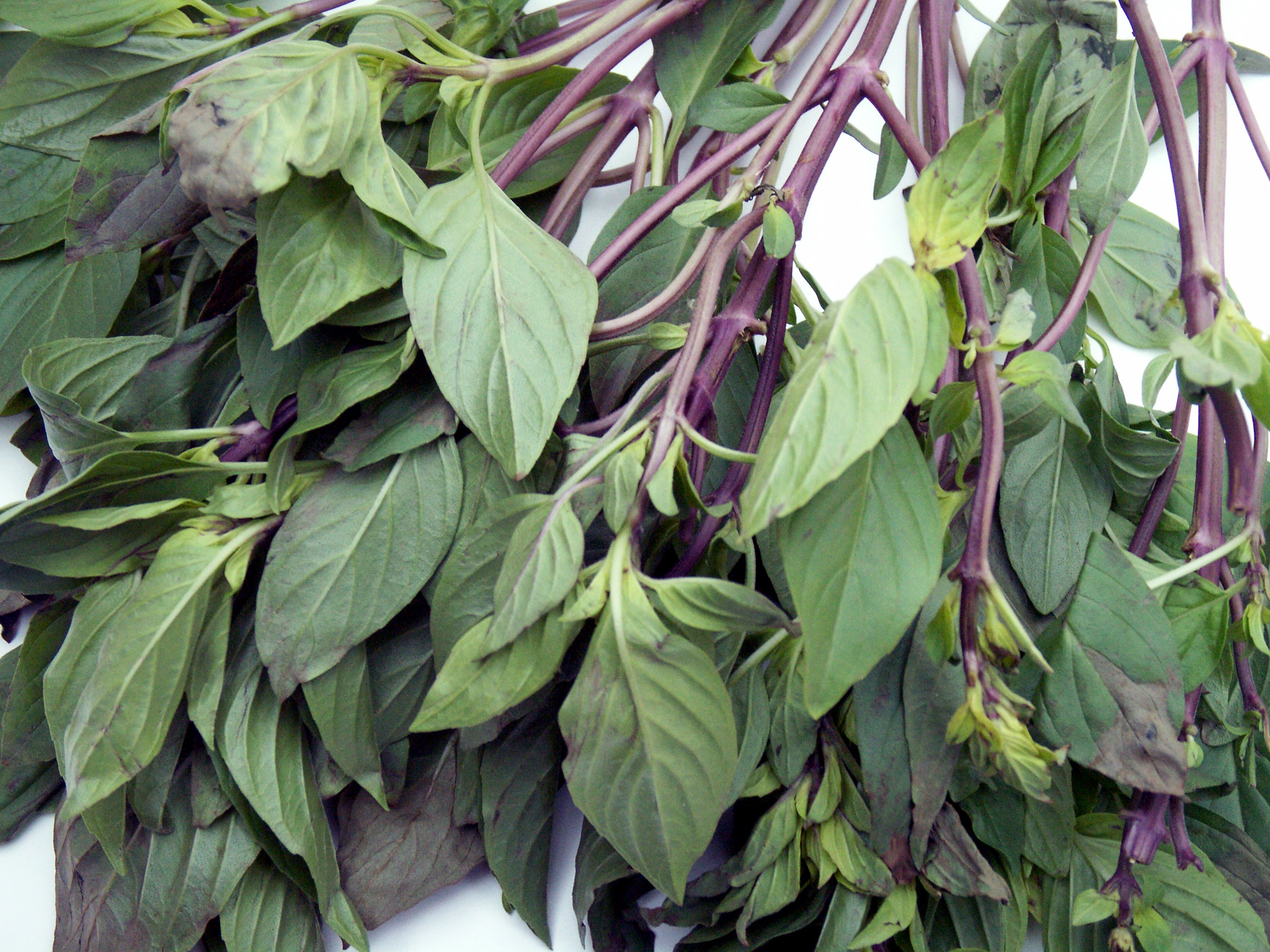 Horapa (Thai basil) Own work, picture taken April 10, 2006 Multi-license - copyleft